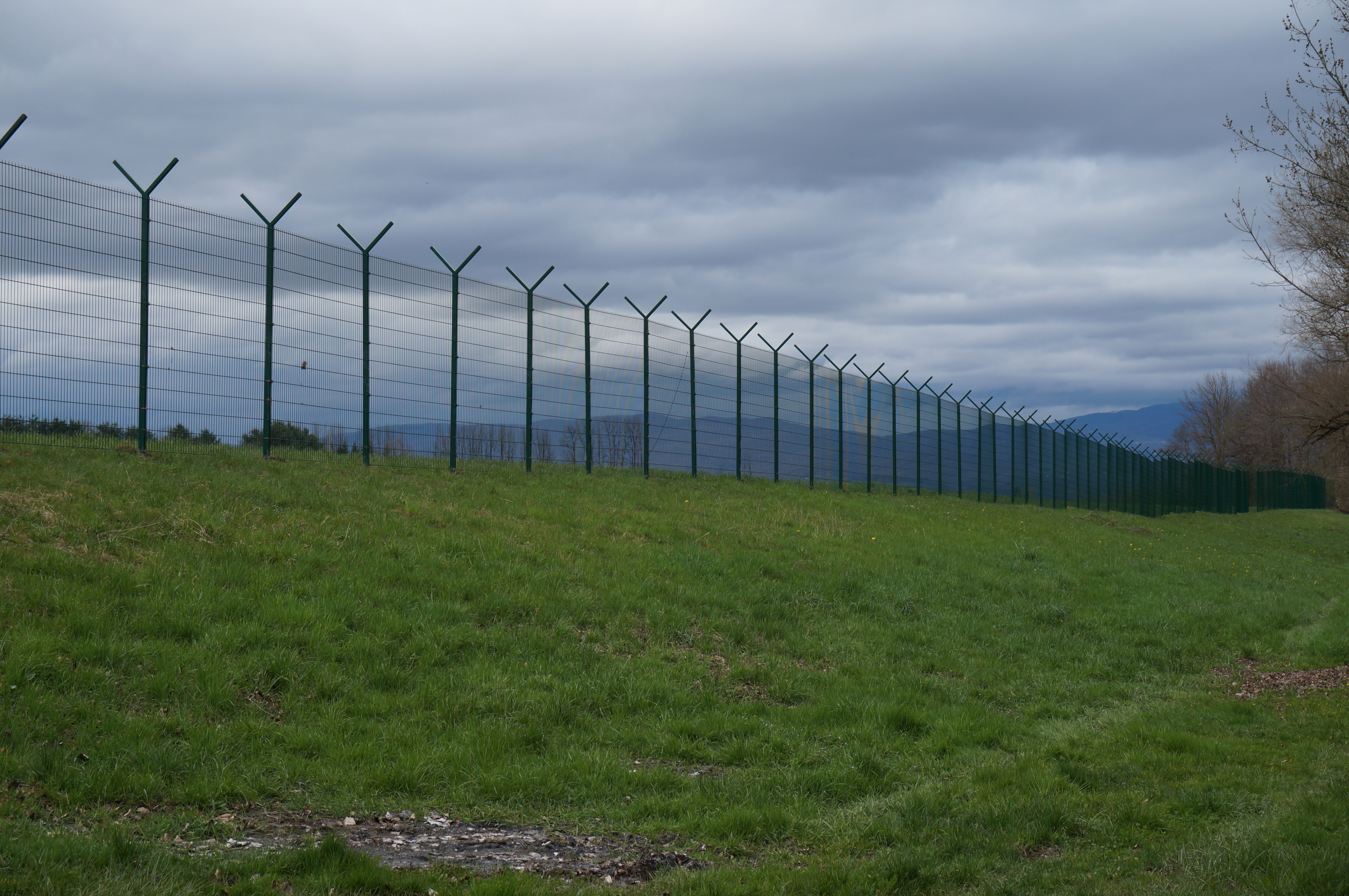 Slovenian border fence at the river Kolpa in Griblje (Bela Krajina)